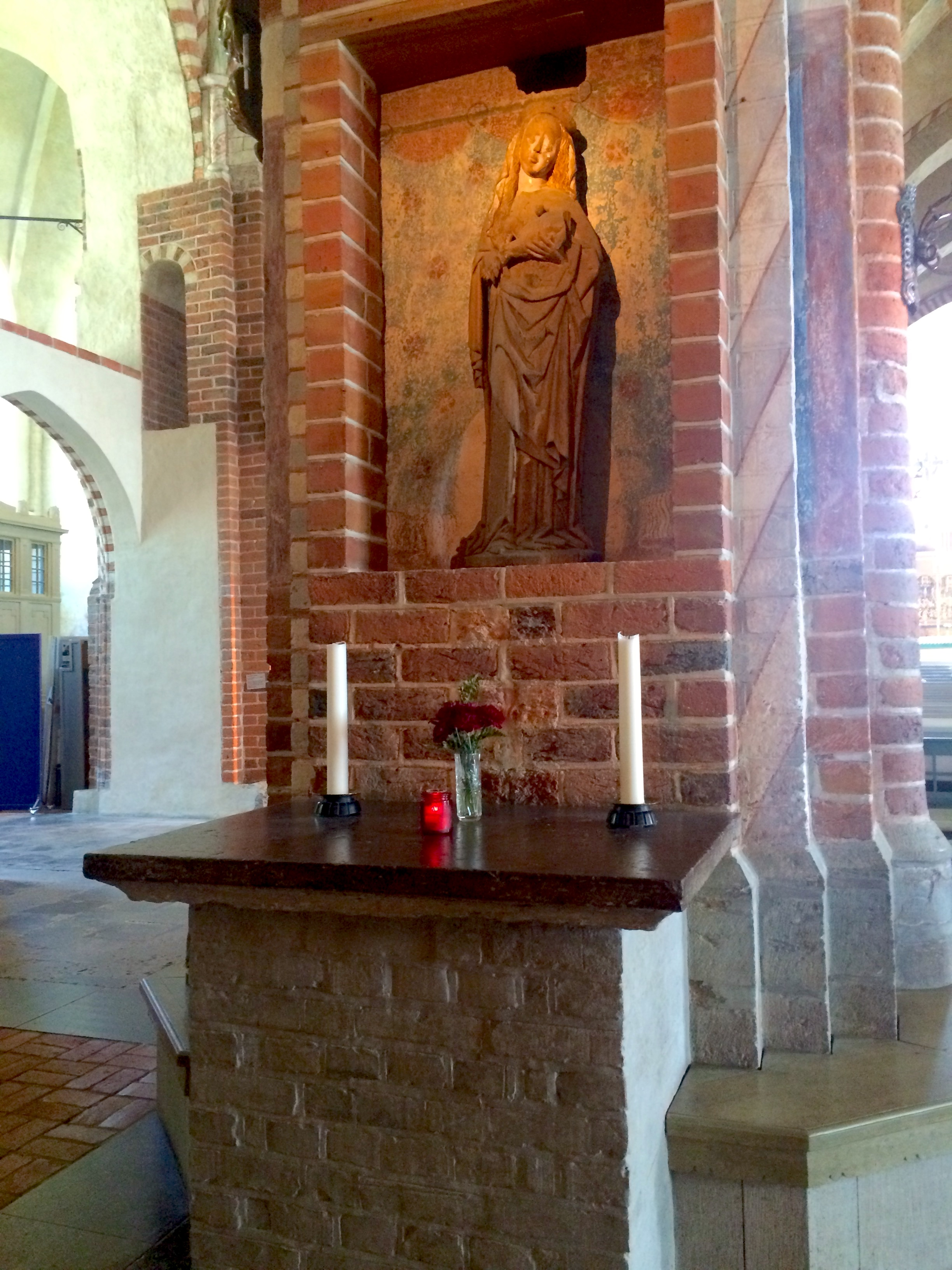 The shrine of the Blessed Virgin Mary in Strängnäs Cathedral, Sweden, consisting of a Marian statue and side altar.